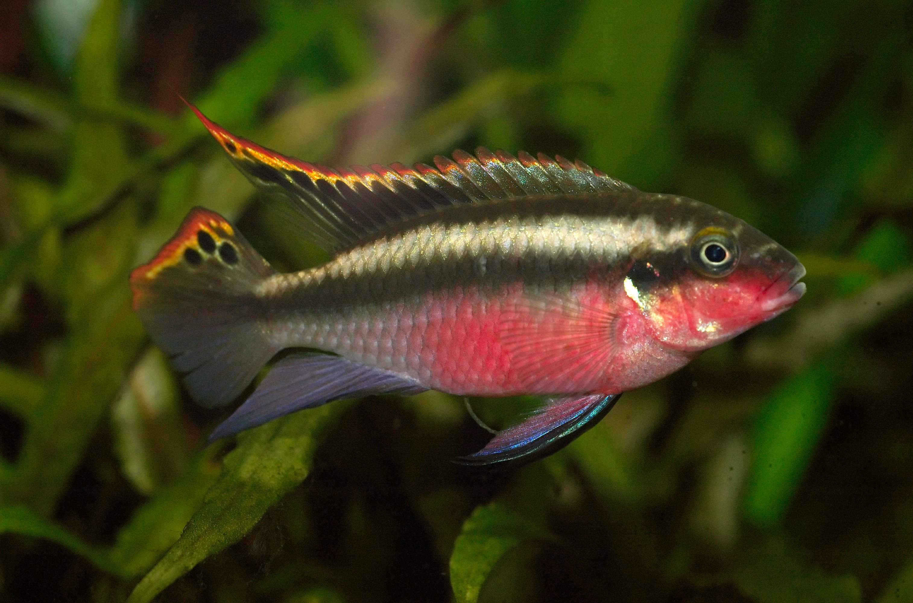 Kribensis, male